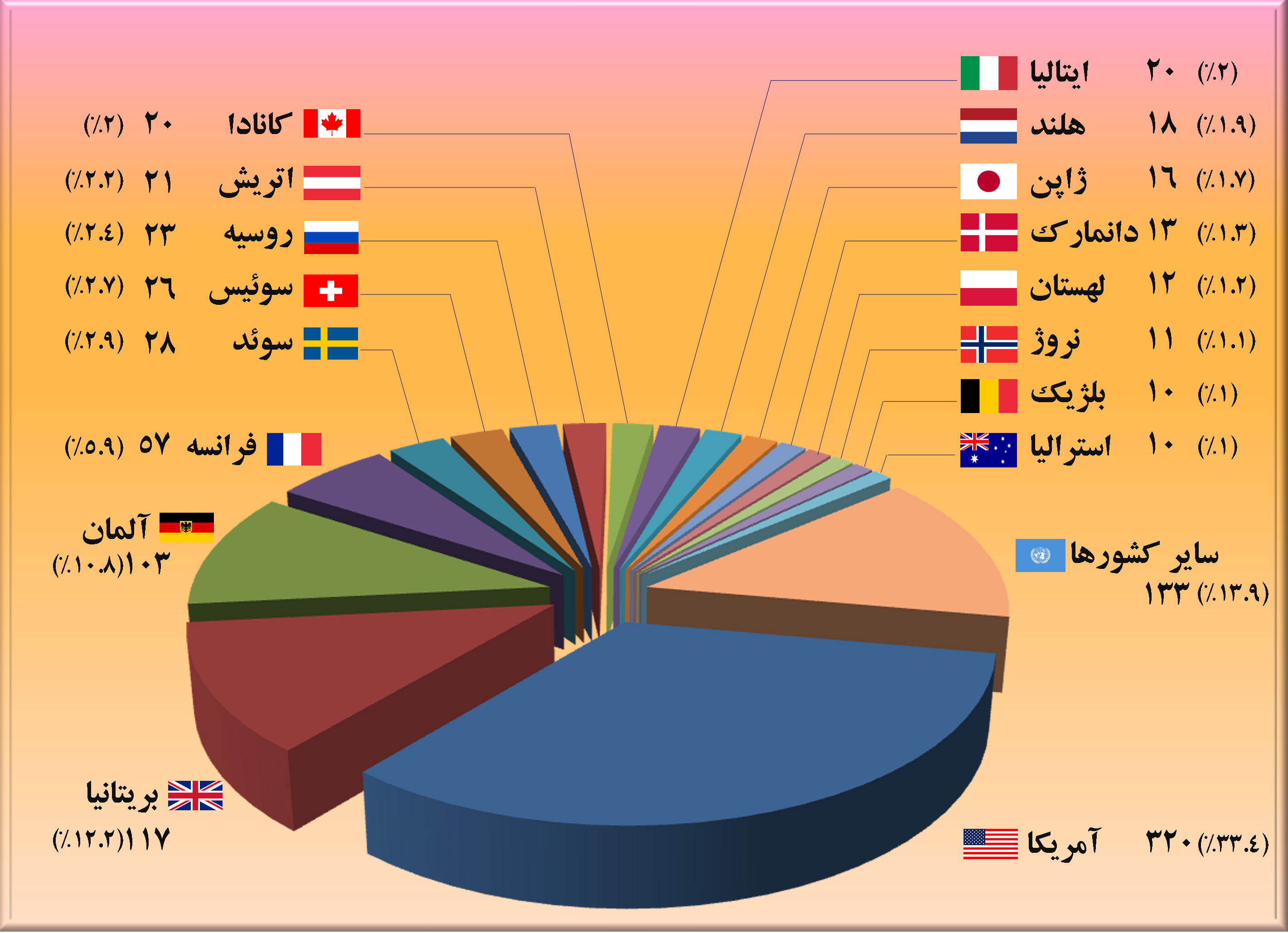 Distribution of Nobel Prizes by country. Language is in Persian (Farsi. All counts were up to and including 2010. I made this with Excel & Adobe Photoshop, and the source for the figures is from: (2010/09/10)